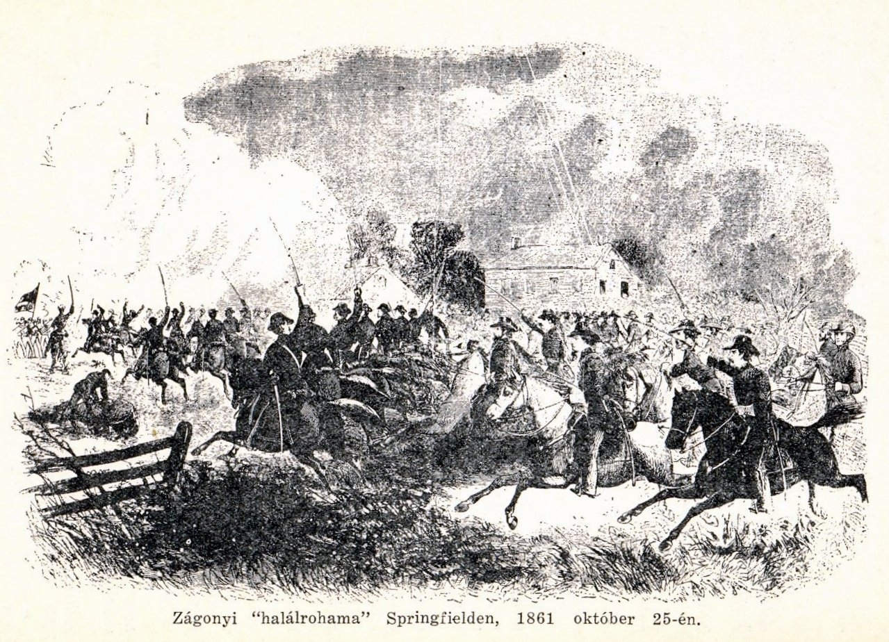 Zagony's "death attack" at Springfield, October 25, 1861.